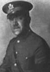 Joseph Frankel (1885-1953)